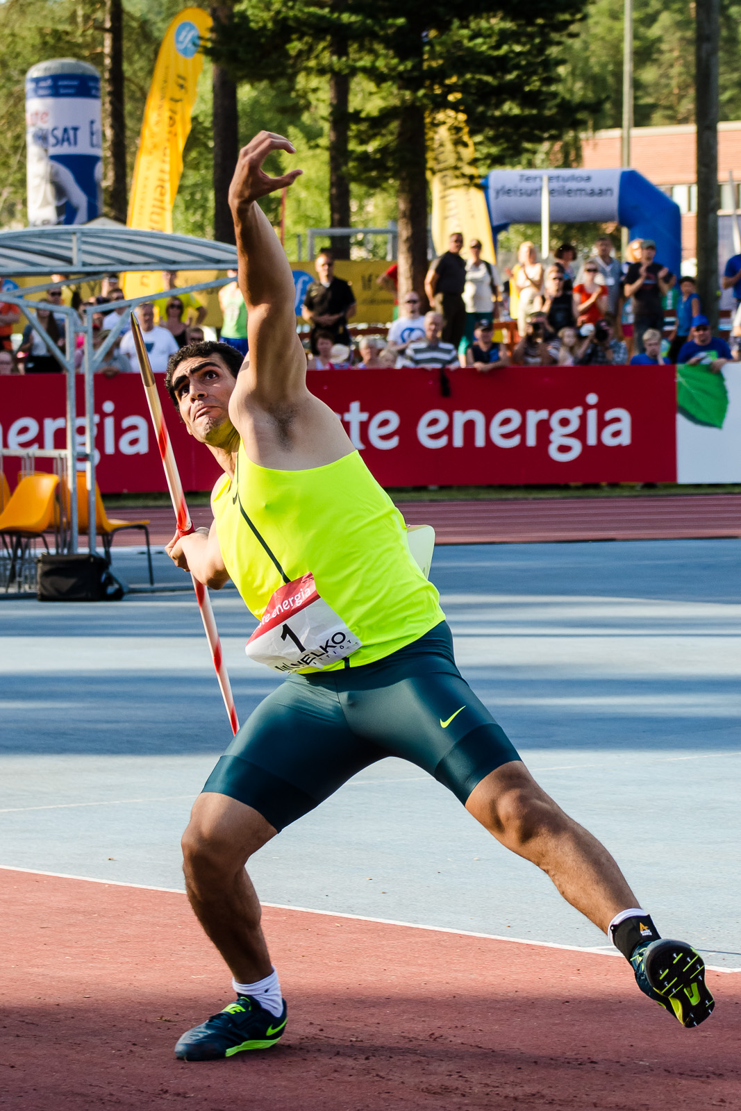 Ihab Abdelrahman El Sayed during Savo Games at Lapinlahti (20 July 2014)